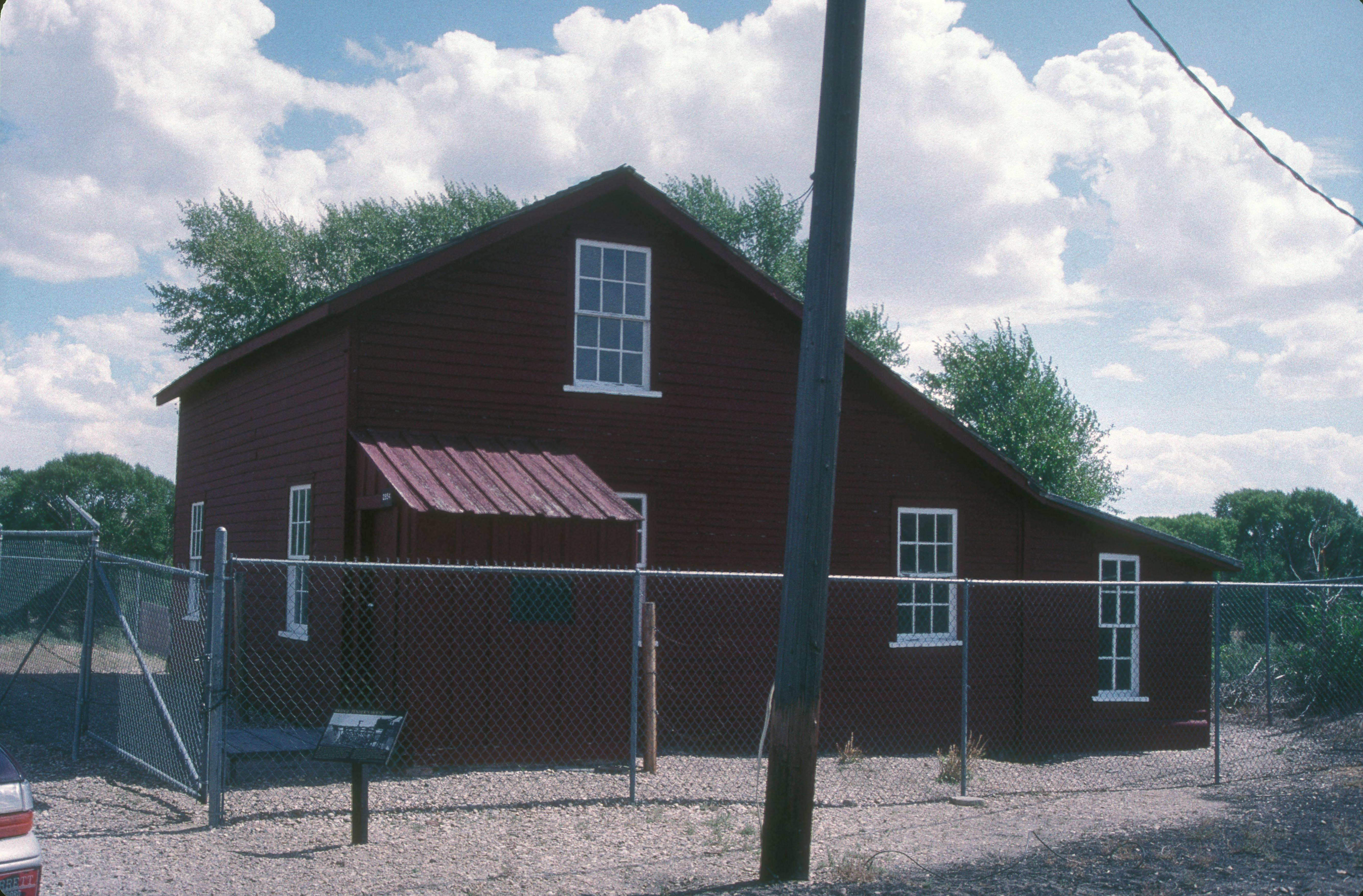 ESTABLISHED IN 1869 AND DE-ACTIVATED IN 1886. NAMED FOR A CIVIL WAR GENERAL WHO WAS A HERO AND ESTABLISHED TO PROTECT THE TRANSCONTINENTAL RAILROAD FROM INDIAN ATTACKS. CURRENT BUILDINGS INCLUDE THE POWDER MAGAZINE, THE RUINS OF THE TRADER'S HOUSE (CHATTERTON) AND THE BRIDGE TENDER'S HOUSE WHO WAS TO PUT OUT FIRES CAUSED BY THE PASSING TRAINS OR TO REMOVE HAZARDOUS MATERIAL THAT ACCUMULATED AROUND THE SUPPORTS OF THE BRIDGE ACROSS THE NORTH PLATTE RIVER; THE PICTURE SHOWS THE BRIDGE TENDER'S HOUSE